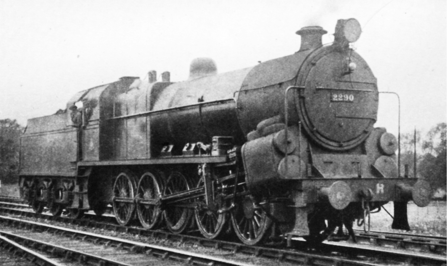 Ten-Coupled, Four-Cylinder Locomotive Used for banking purposes on the steep Lickey Incline on the LM&S line from Bristol to Birmingham.